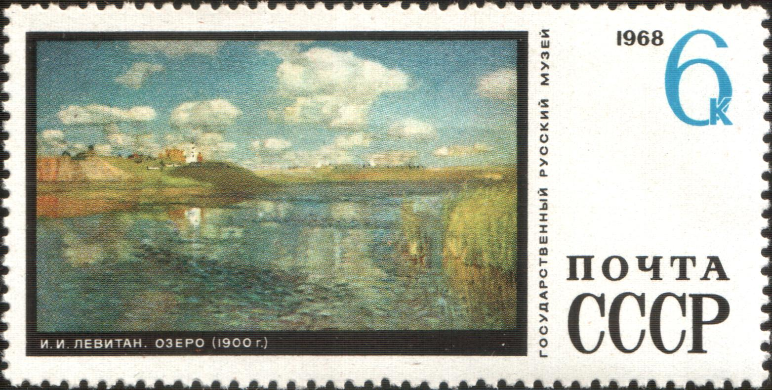 USSR stamp: “Lake. Rus” (1900) by Vasily Surikov (1860–1900). Series: Paintings in the State Russian Museum (Saint Petersburg)